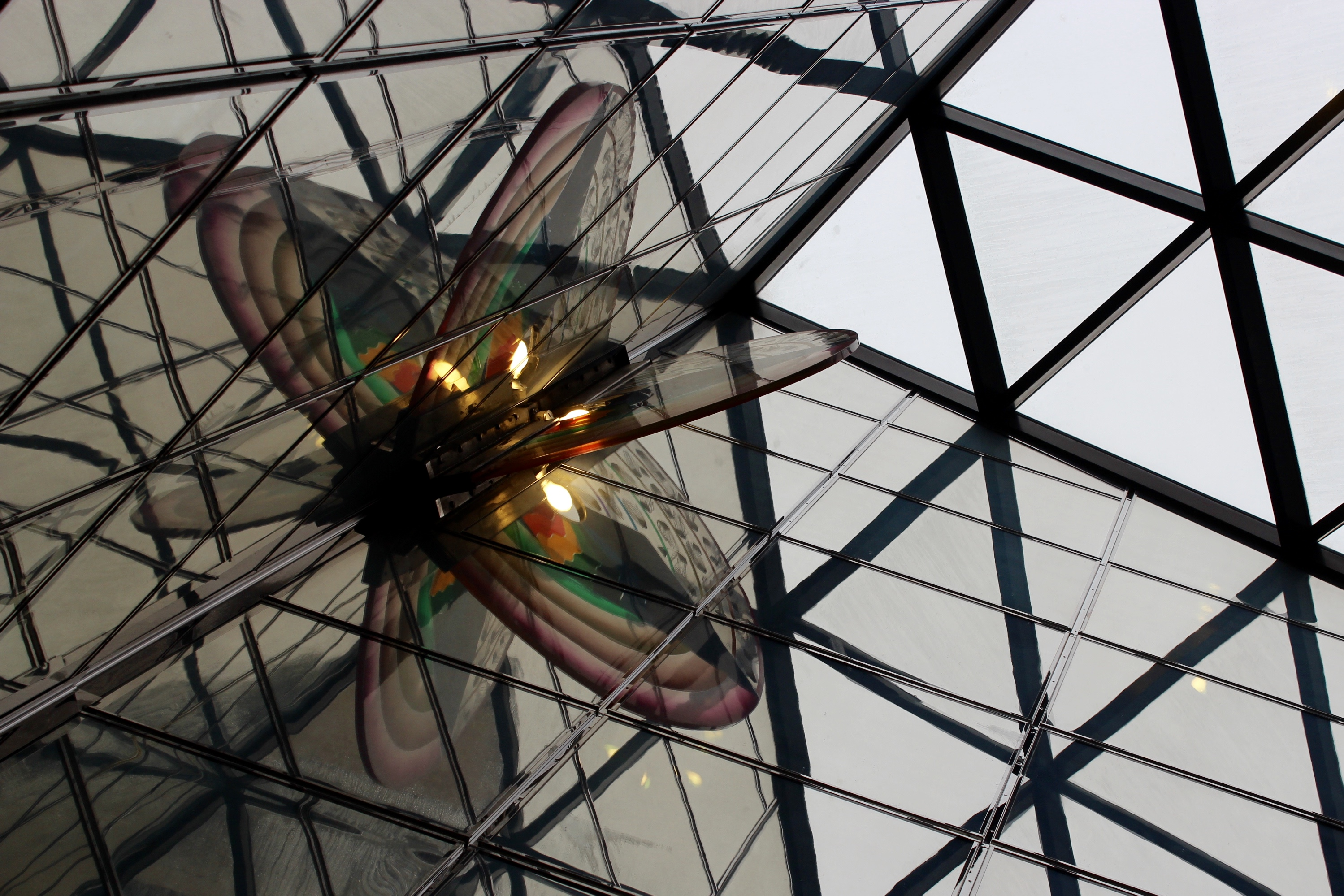 Métamorphose d’Icare (Icarus Metamophosis) from Claire Sarrasin (1987).